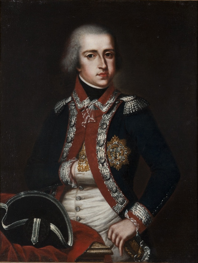 Portrait of Charles Emmanuel, Prince of Carignano (1770-1800), father of king Charles Albert of Sardinia